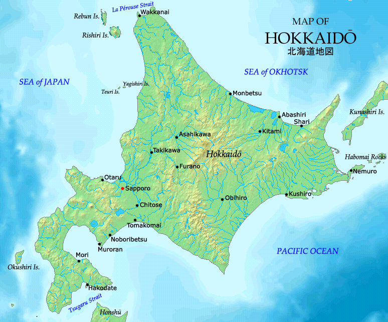 Map of Hokkaido in English, made by the uploader, based on a map from demis.nl. Japanese version: Image:Hokkaidomap-jp.png